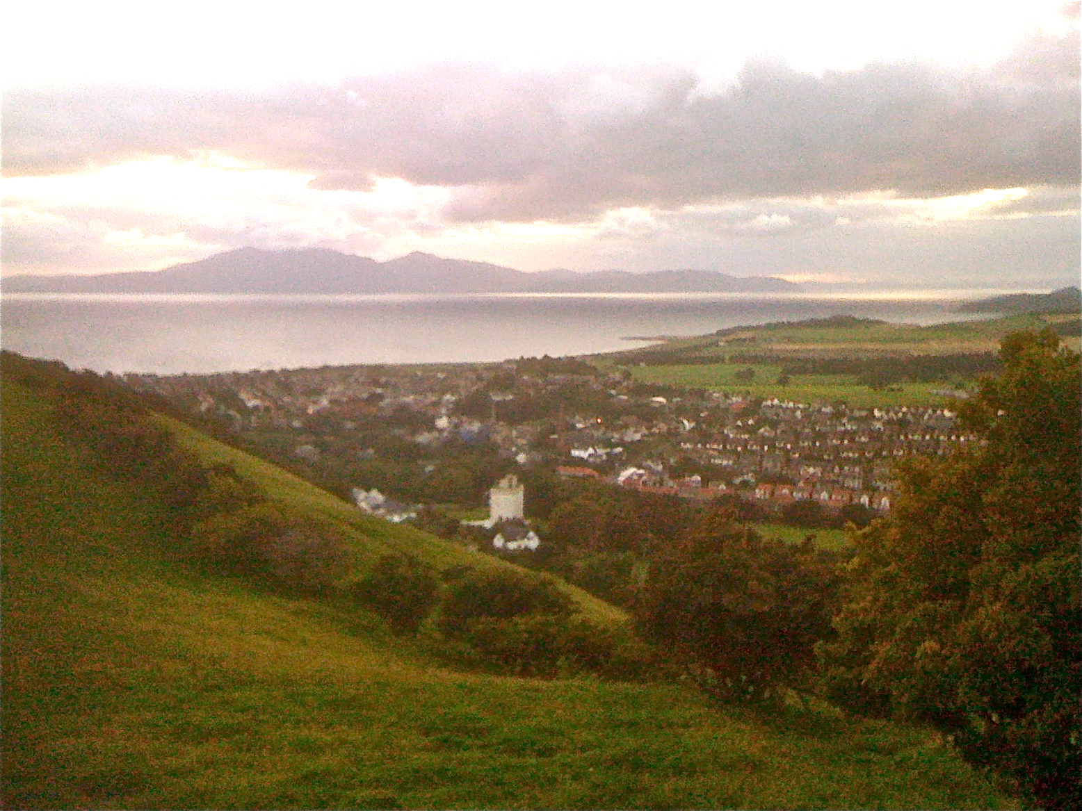 West Kilbride, as seen from Law Hill. Law Castle is in the foreground.